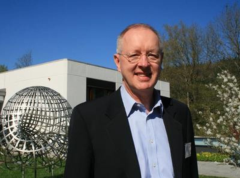 Jan Karel Lenstra, Oberwolfach 2011